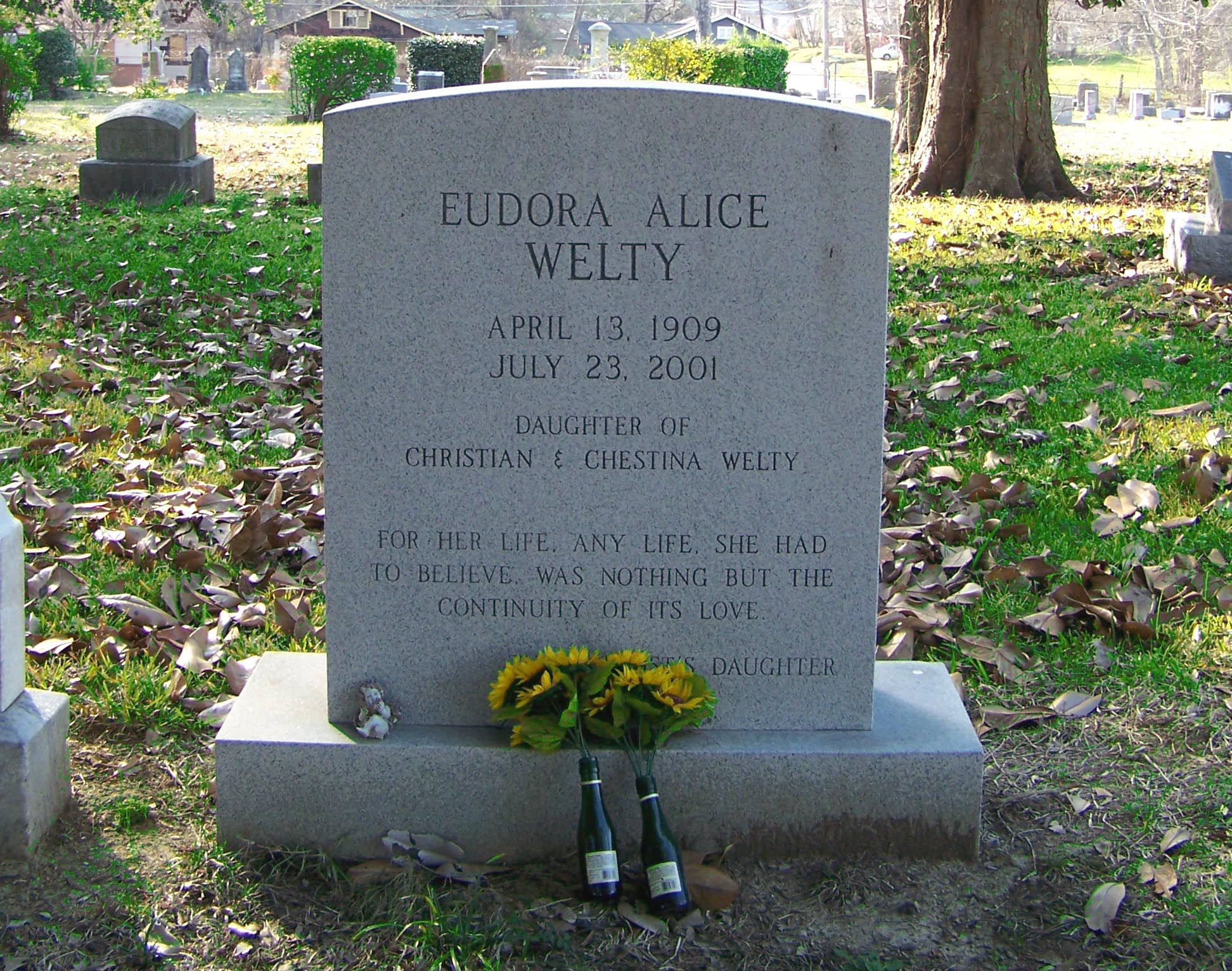 Gravestone of famous author Eudora Welty